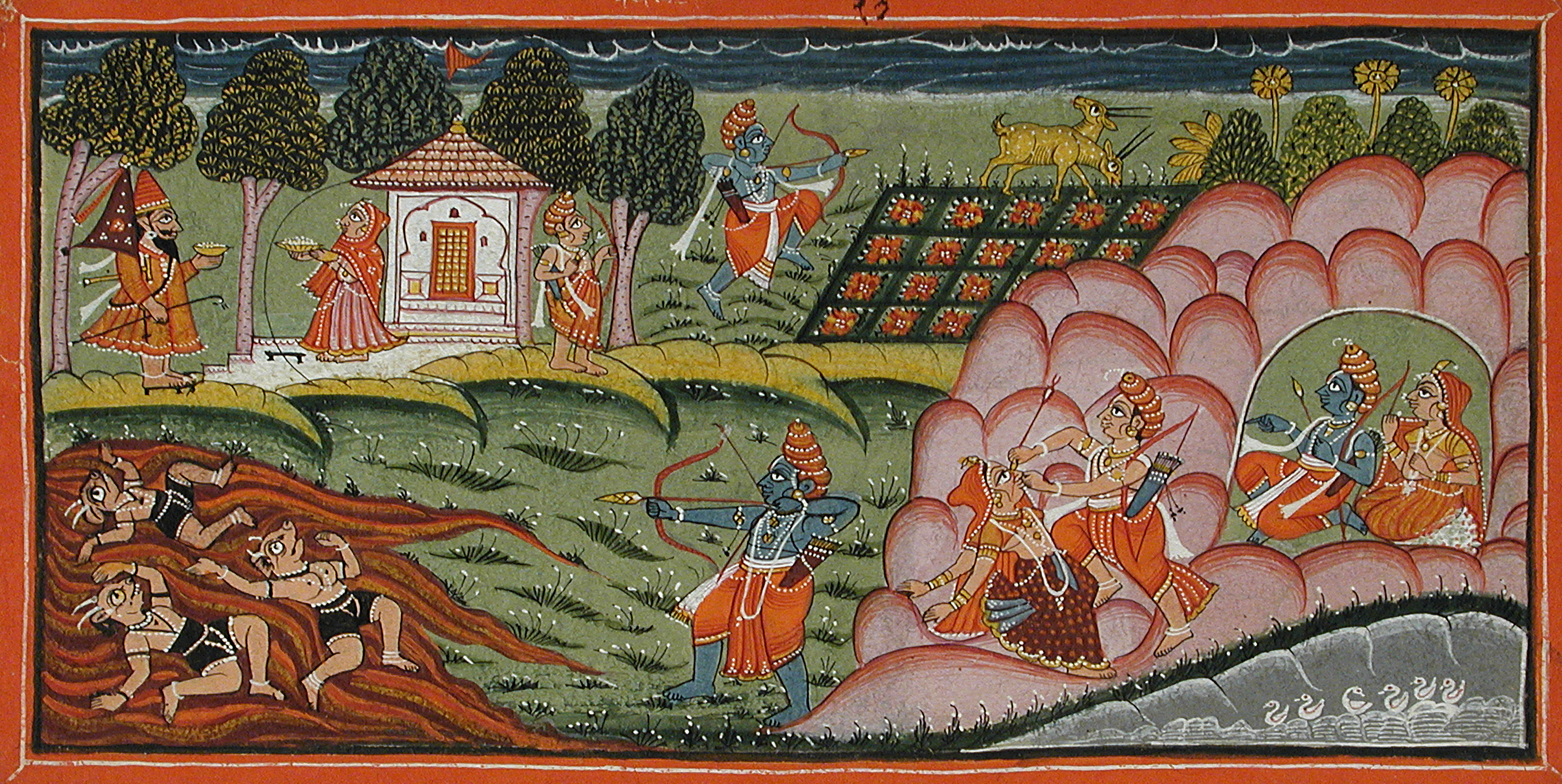 Episodes in the Panchavati Forest, Folio from a Ramayana. The bottom right corner shows Shurpankai's nose being cut by Lakshmana The top right corner shows Rama hunting the golden deer, which was Maricha in disguise. The top left corner shows Ravana in the disguise of a beggar.